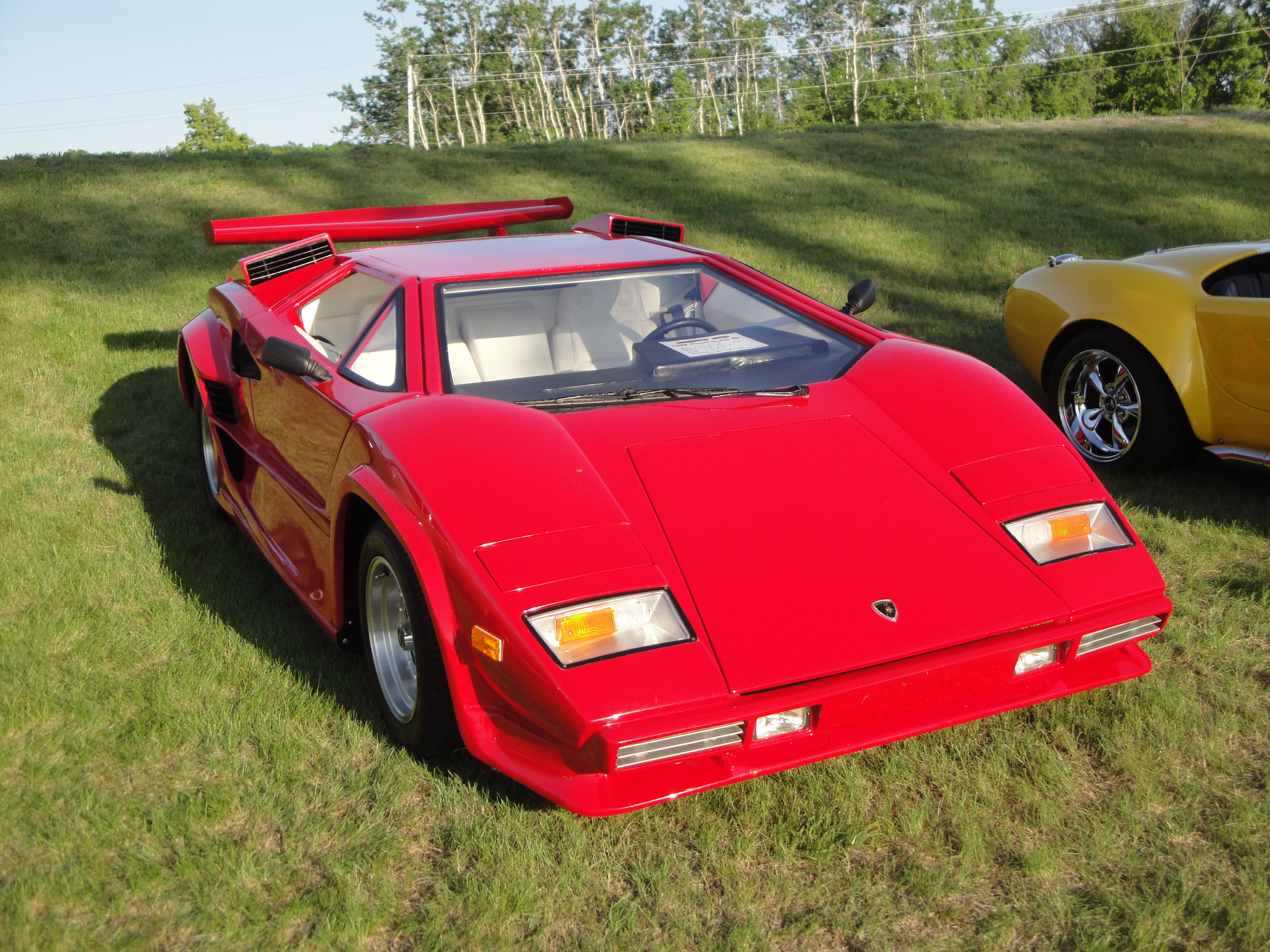 A&W Cruise Night May 2012 New London Minnesota